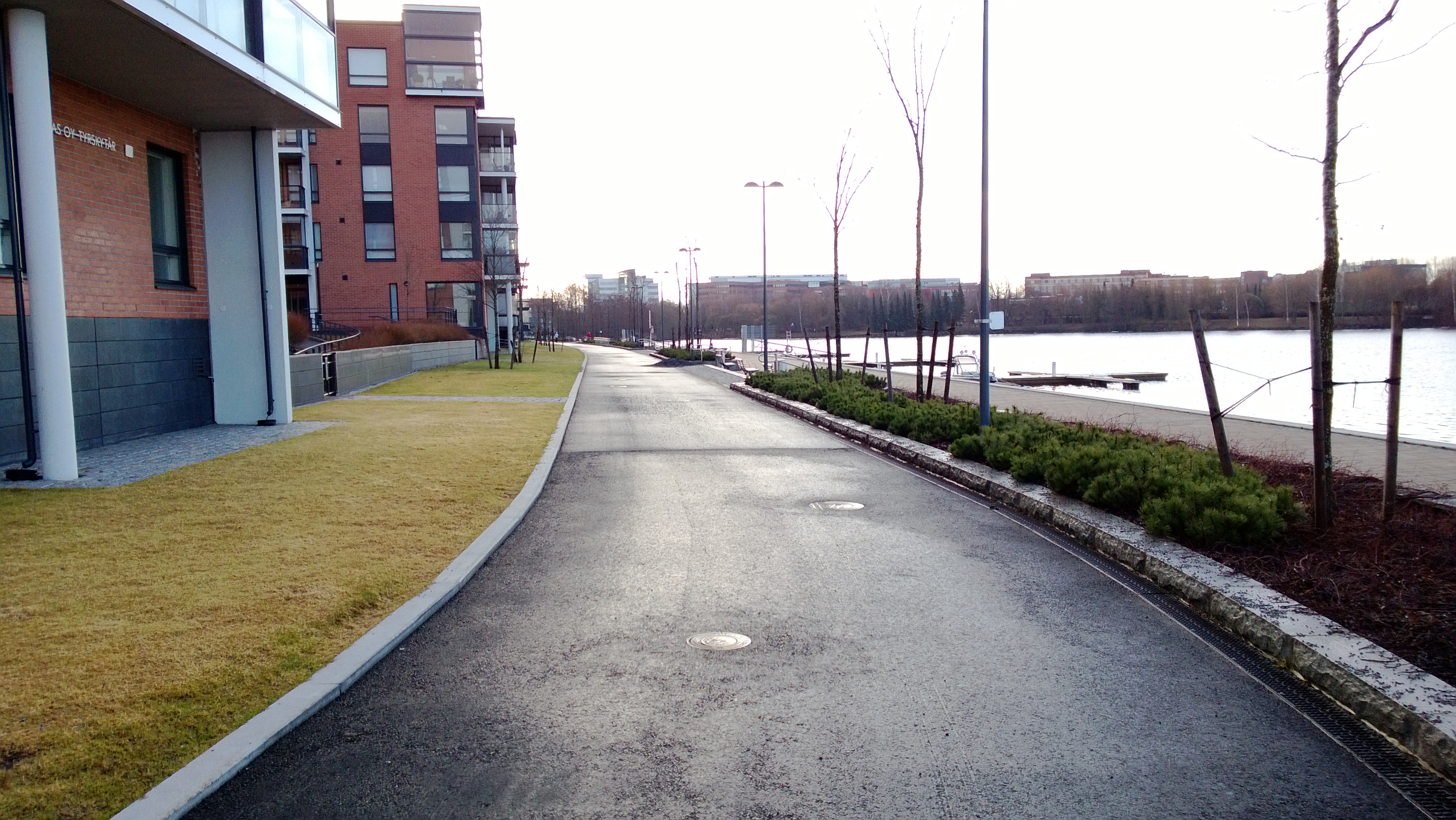 Ratinanranta suburb in the centrum of Tampere city.